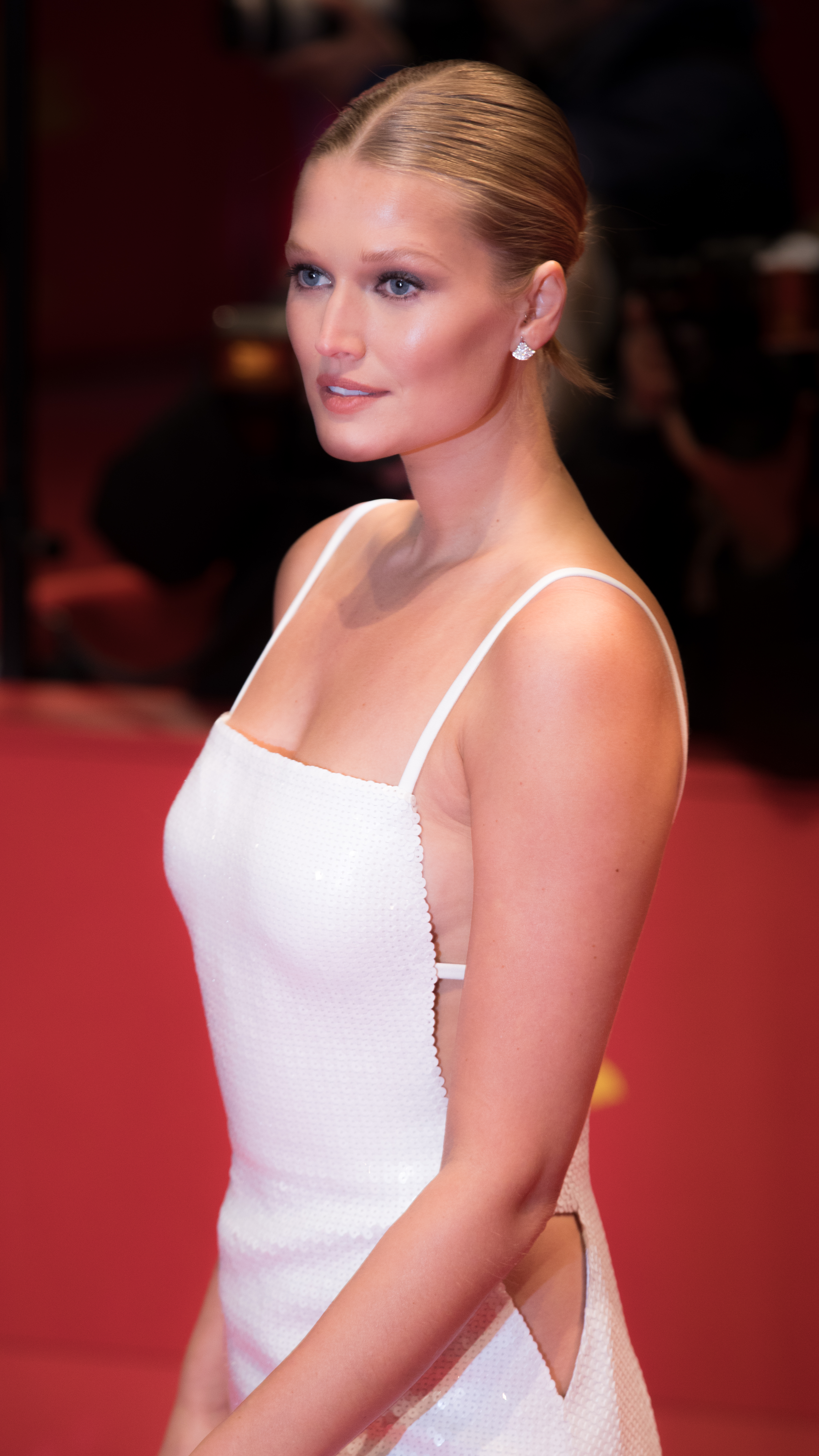 Toni Garrn at the opening ceremenony of the Berlinale 2018